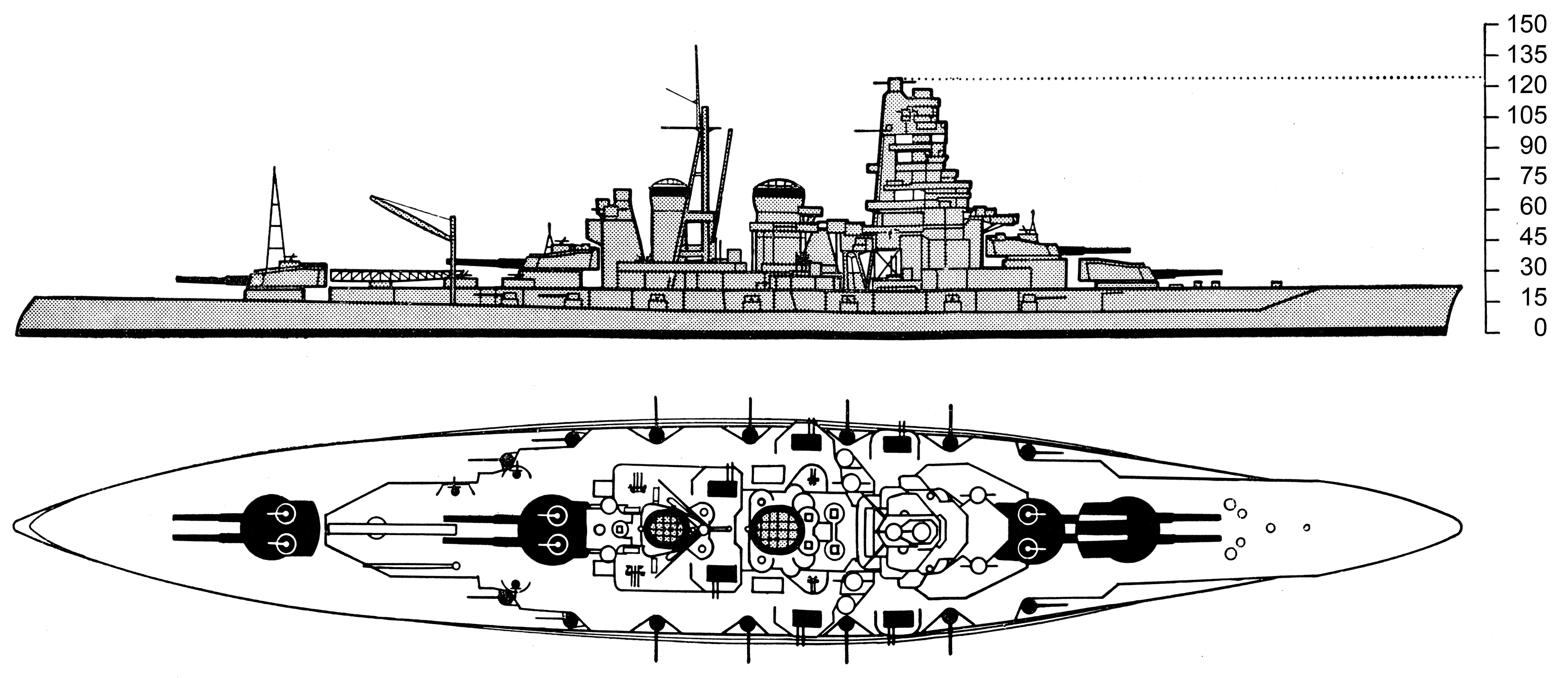 A drawing of the Kongo class battleship. Scale shows height in feet.